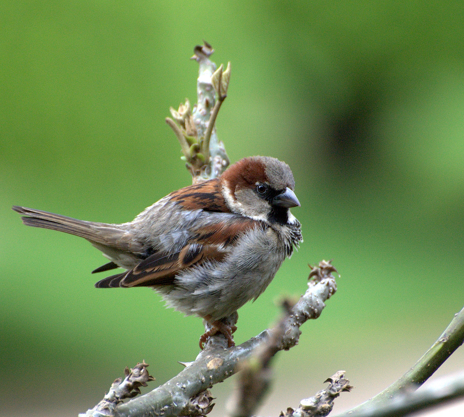 A male House Sparrow at the Parque da Independência, Museu do Ipiranga, São Paulo, Brazil